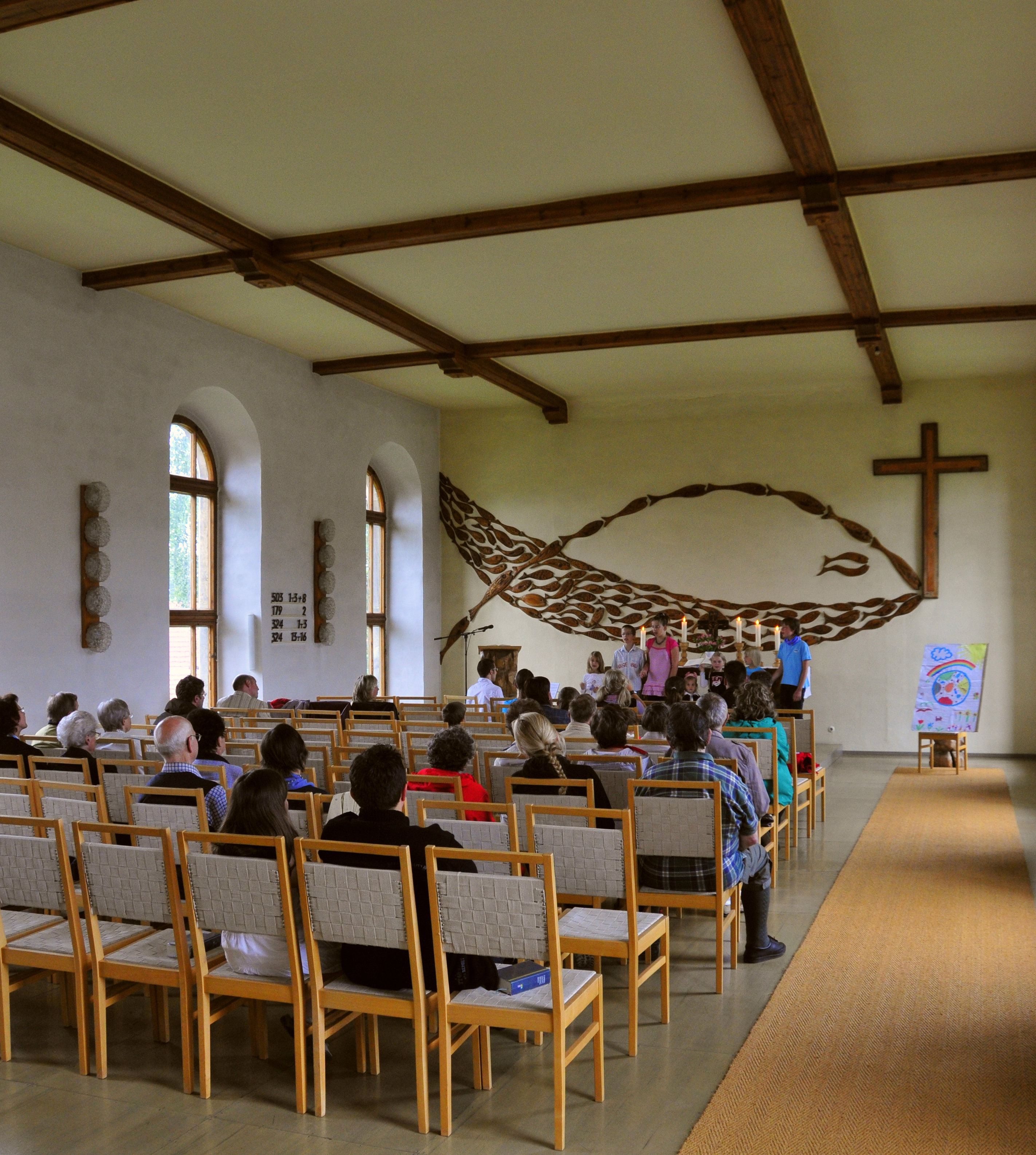 Mess room of the church of Herrenhof (Thuringia)